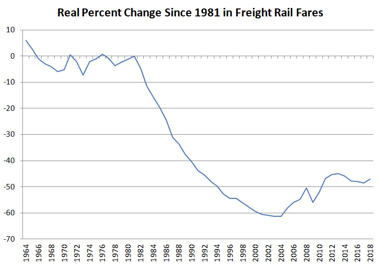 Data acquired from the Association of American Railroads through a personal communication.; adjusted for inflation using the implicit price deflator for net domestic product.